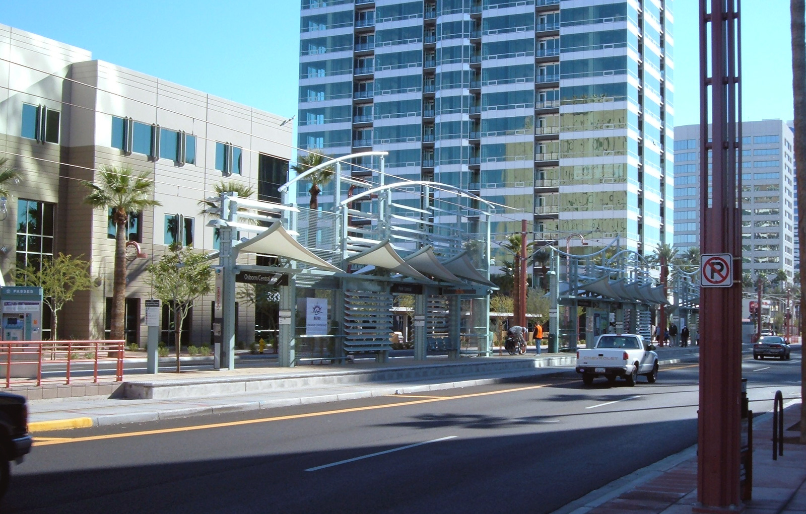 Photograph of the Park Central (or Central at Osborn) Station of METRO Light Rail that serves the Phoenix area, Arizona, USA. This photograph was taken during the light rail's grand opening celebration on December 28, 2008.